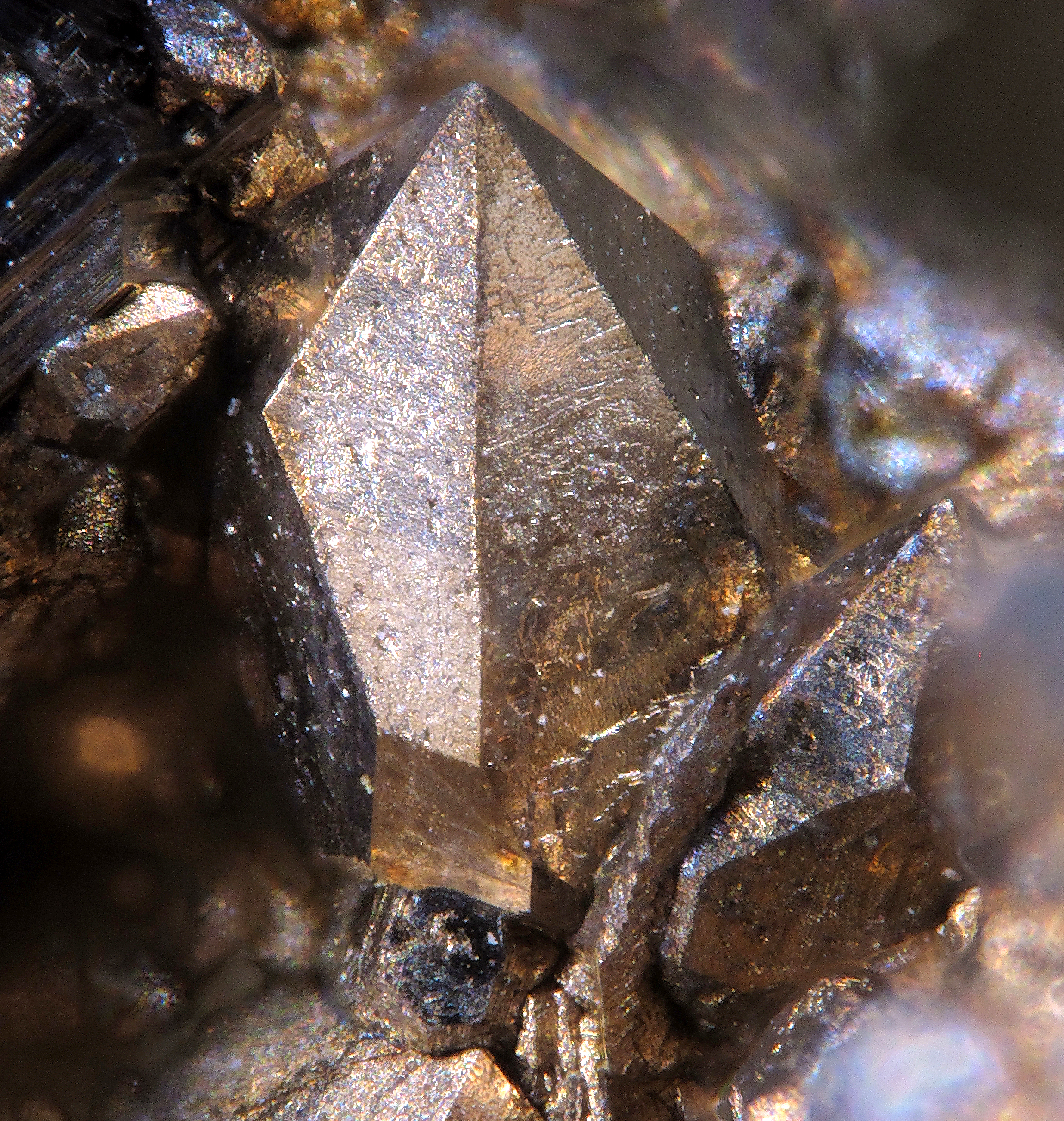 Nickeline Locality: Eisleben, Mansfeld-Südharz, Saxony-Anhalt, Germany Dimensions: 64 mm x 45 mm x 26 mm Field of view 2.2 mm Largest crystal size: 2 mm Collection and photograph Christian Rewitzer 5.2014